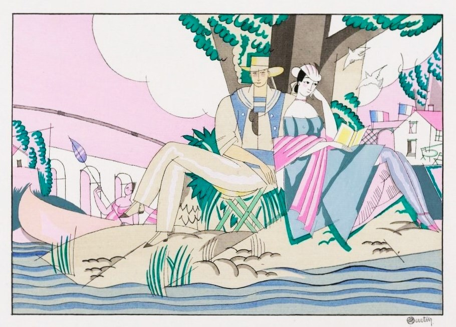 cropped version